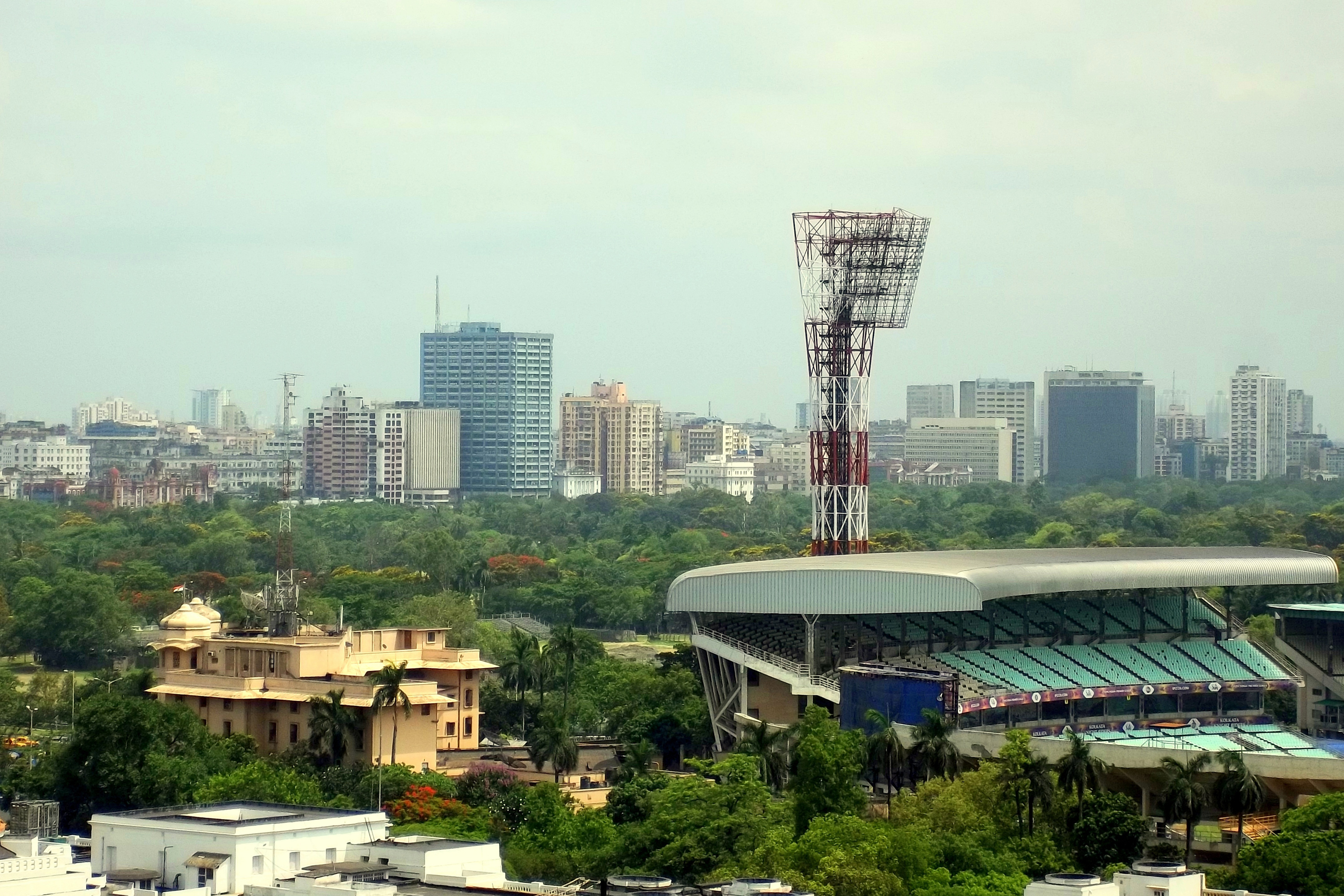 A view of the skyline of Kolkata including Chatterjee International Center, Tata Center & The Eden Gardens.